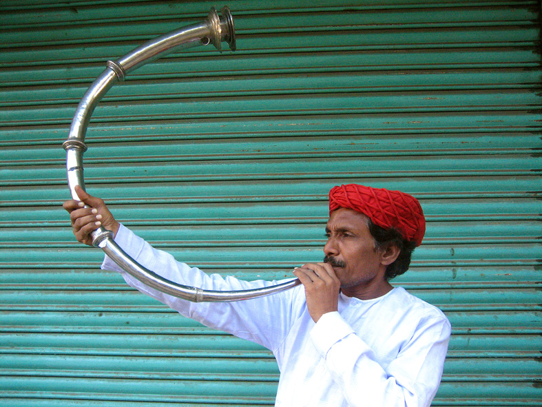 A Tutari-player in a wedding band at Grant Road, Mumbai.